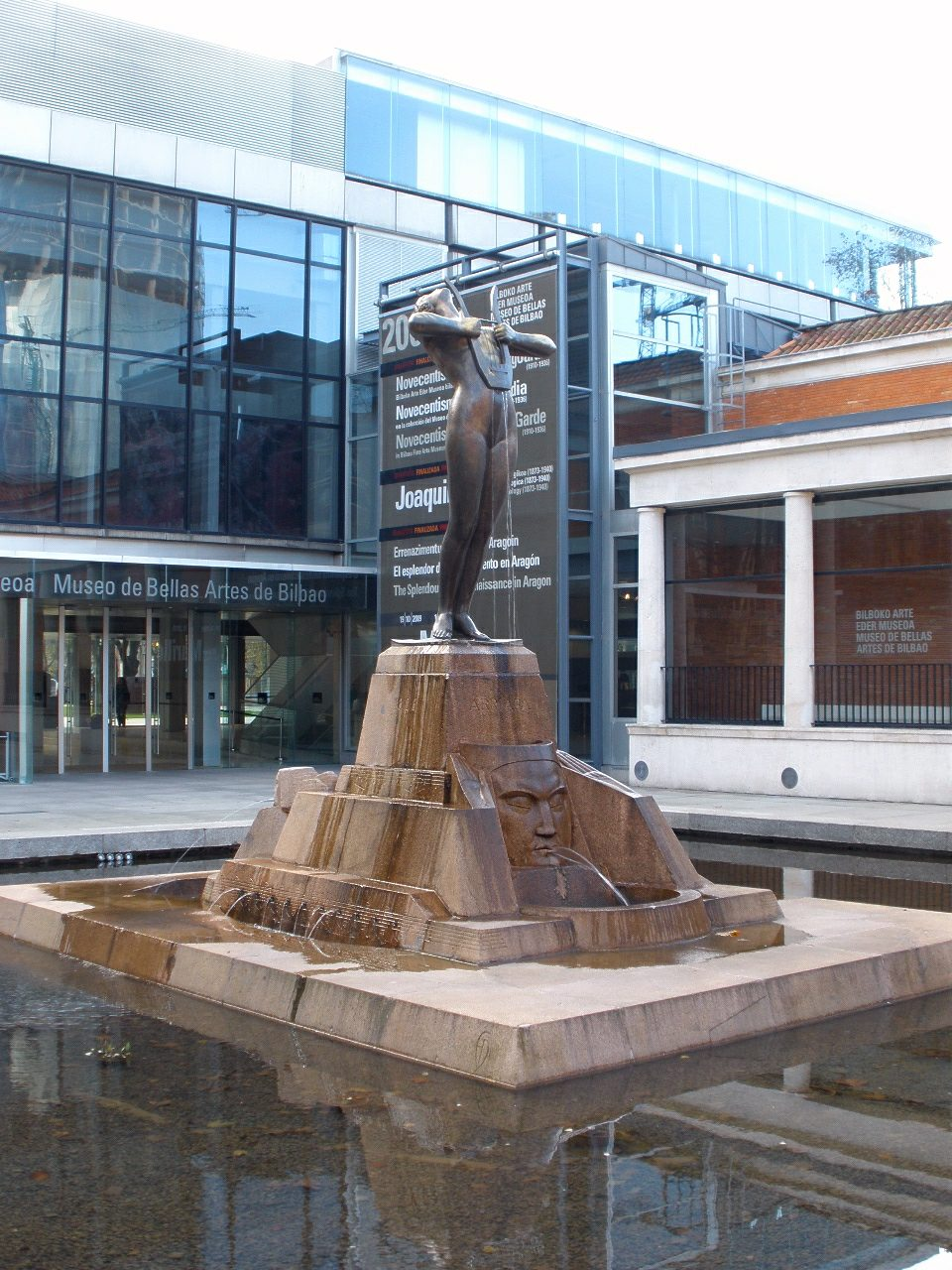 'Melpómene', de Francisco Durrio de Madrón, en el Museo de Bellas Artes de Bilbao